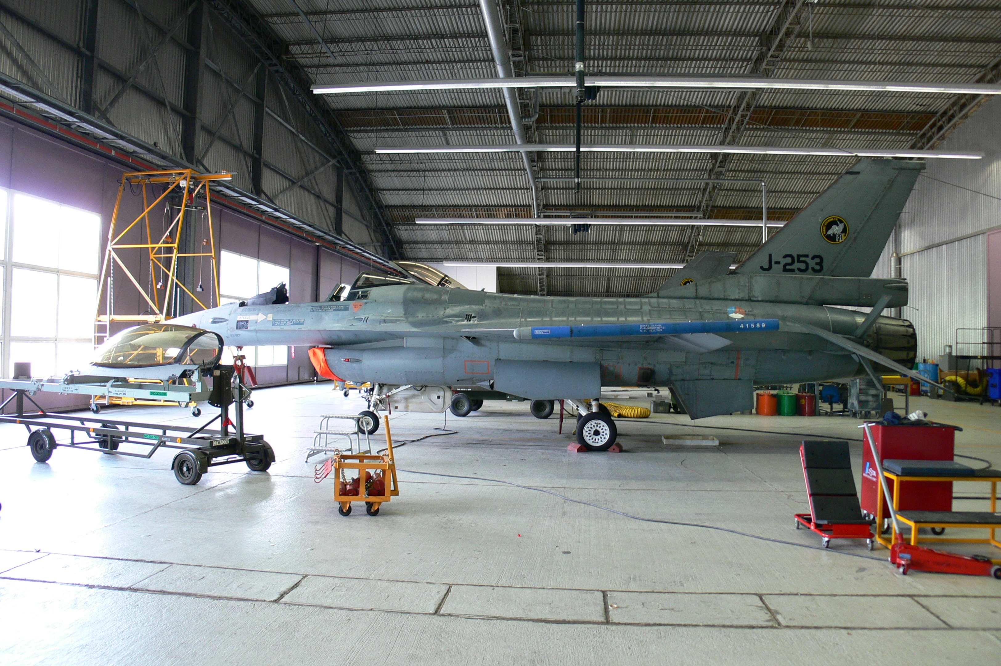 Two days before they were flown off to be either stored or sold on, i visited the last three F-16's at Twenthe Airbase being readied for that in some cases final trip. The base was already closed and abandoned, but for a few crewchiefs working on these birds. They all were flown on the 6th of june (2 days after my visit) to Volkel Airbase to be processed further. The fate of J-251: The fate of J-253: The fate of J-269: J-269 has been sold to the Royal Jordanian Air Force and still active, the other two are in storage or already scrapped.